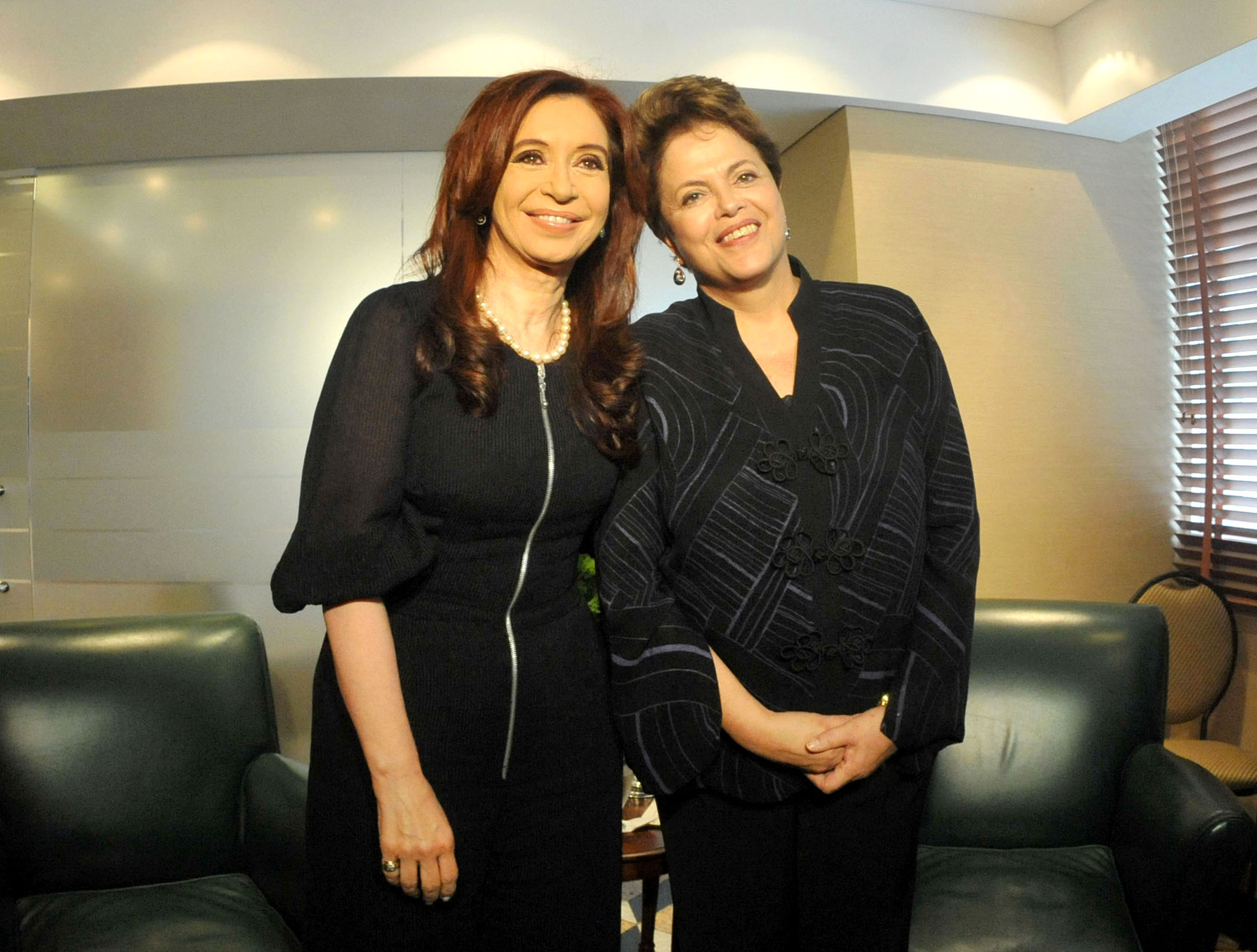 Cristina Fernández de Kirchner and Dilma Rousseff in Caracas at the Community of Latin American and Caribbean States summit.